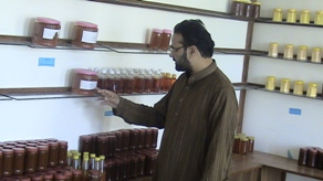 A picture of DR Allama Babar Sultan Alqadri